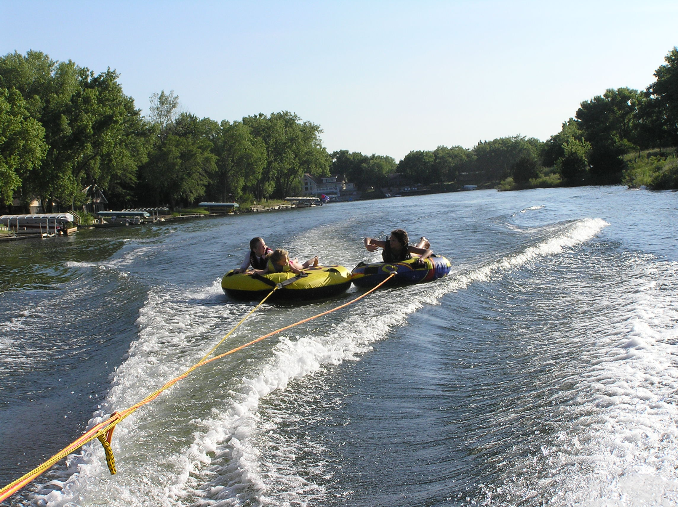 Tubing on Morning Star Lake